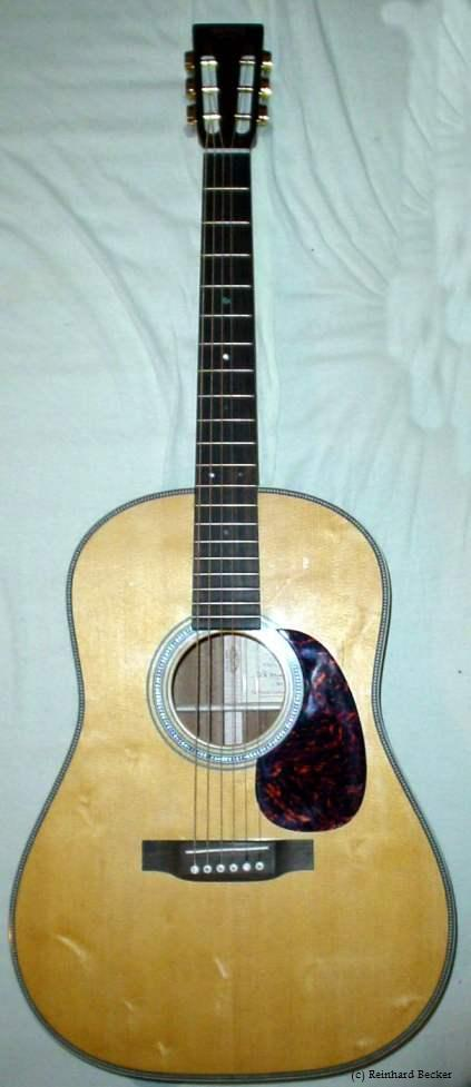 Martin Guitar, Model CEO 5